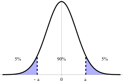 Illustrating a 90% confidence interval on a standard normal curve.